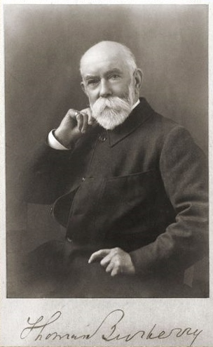 Depicted person: Thomas Burberry – British businessman